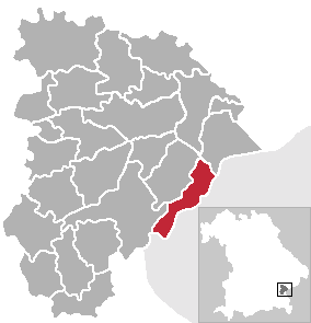 Location of Burghausen in the Landkreis Altötting